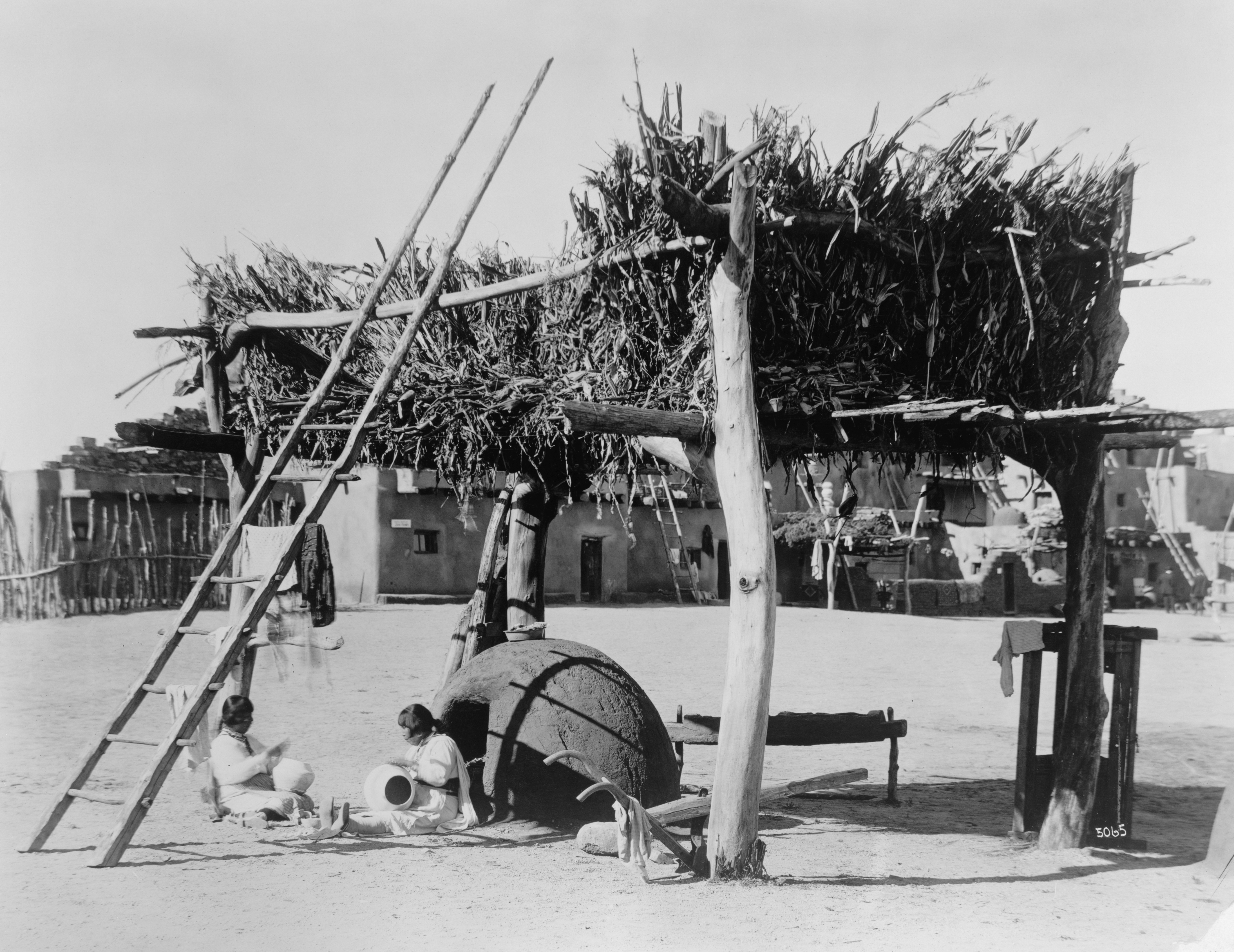 "A drying platform of the Zunis" "Photograph shows Zuni women making pottery beneath a drying platform composed of tree trunks and limbs forming the framework and flooring, on which is placed tall plants and corn, in an exhibition display of the "painted desert" of the Sante Fe on the grounds of the Panama-California Exposition in San Diego, California."